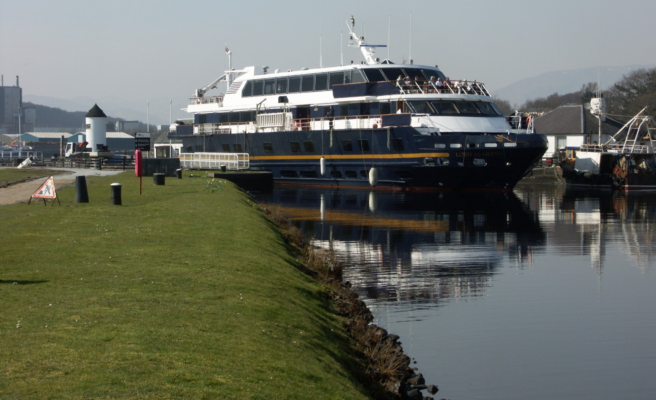 Lord of the Glens leaving Corpach sea lock at the Western end of the Caledonian Canal